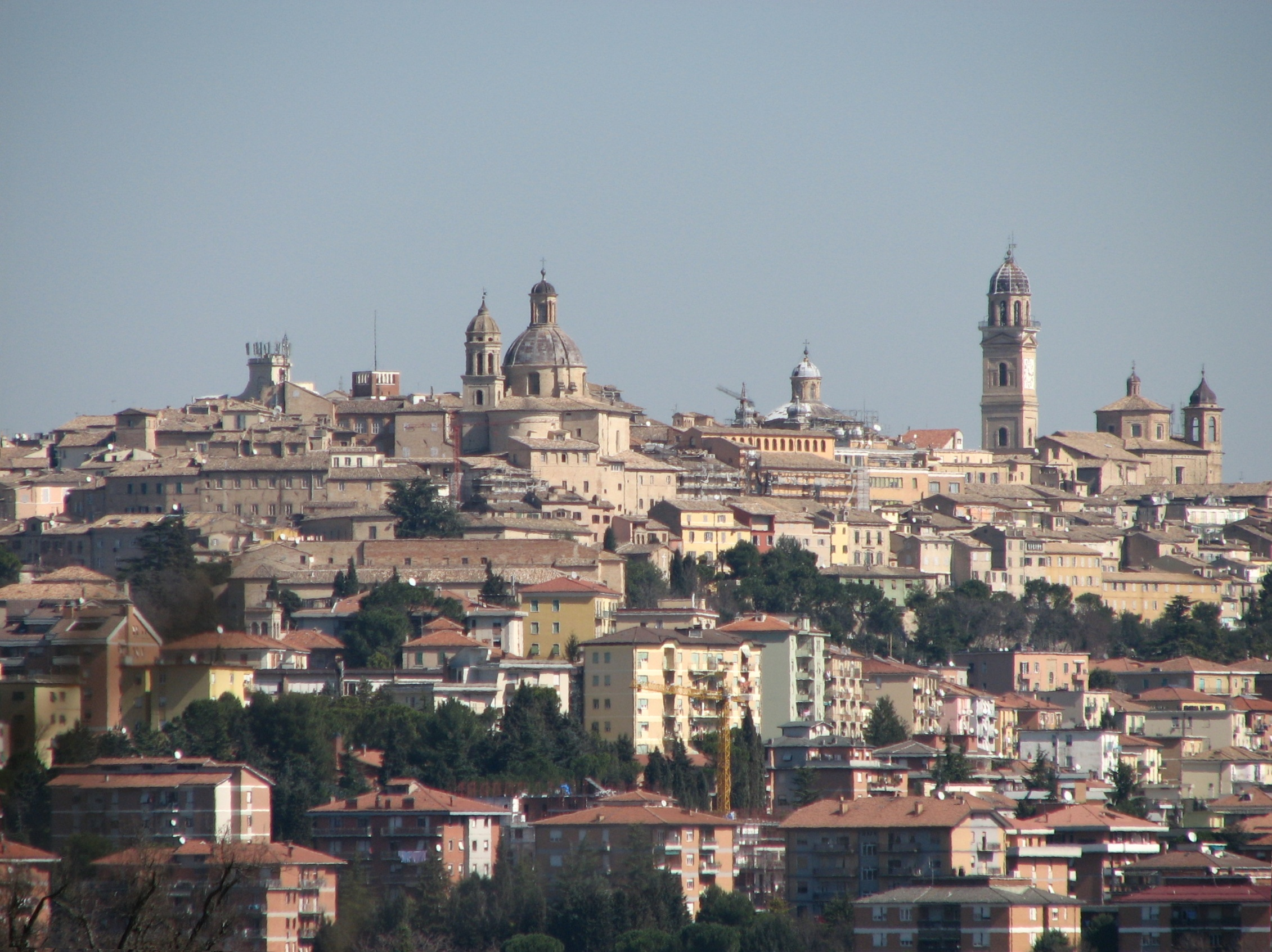 Panorama of Macerata